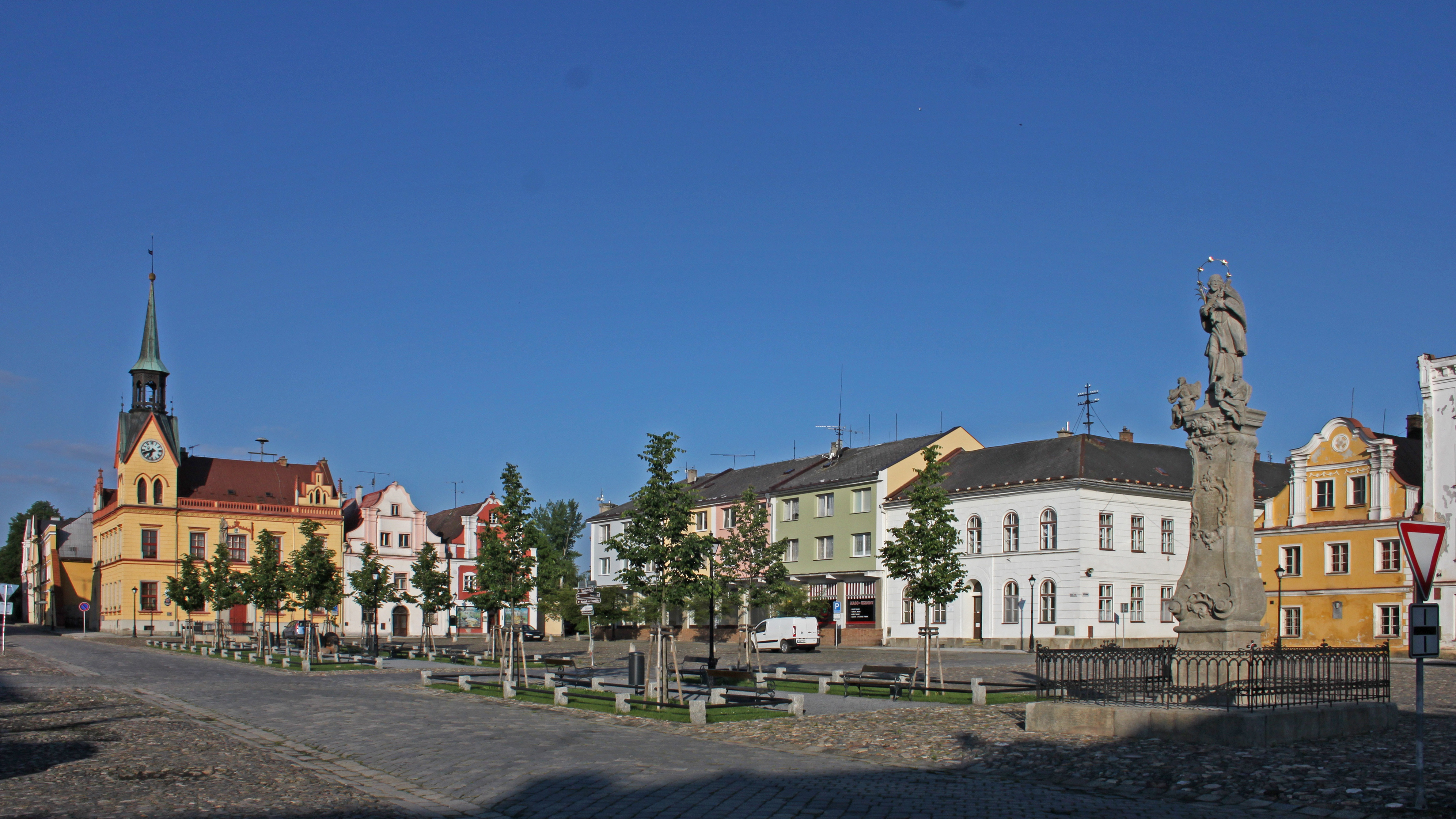 Vidnava - main square.